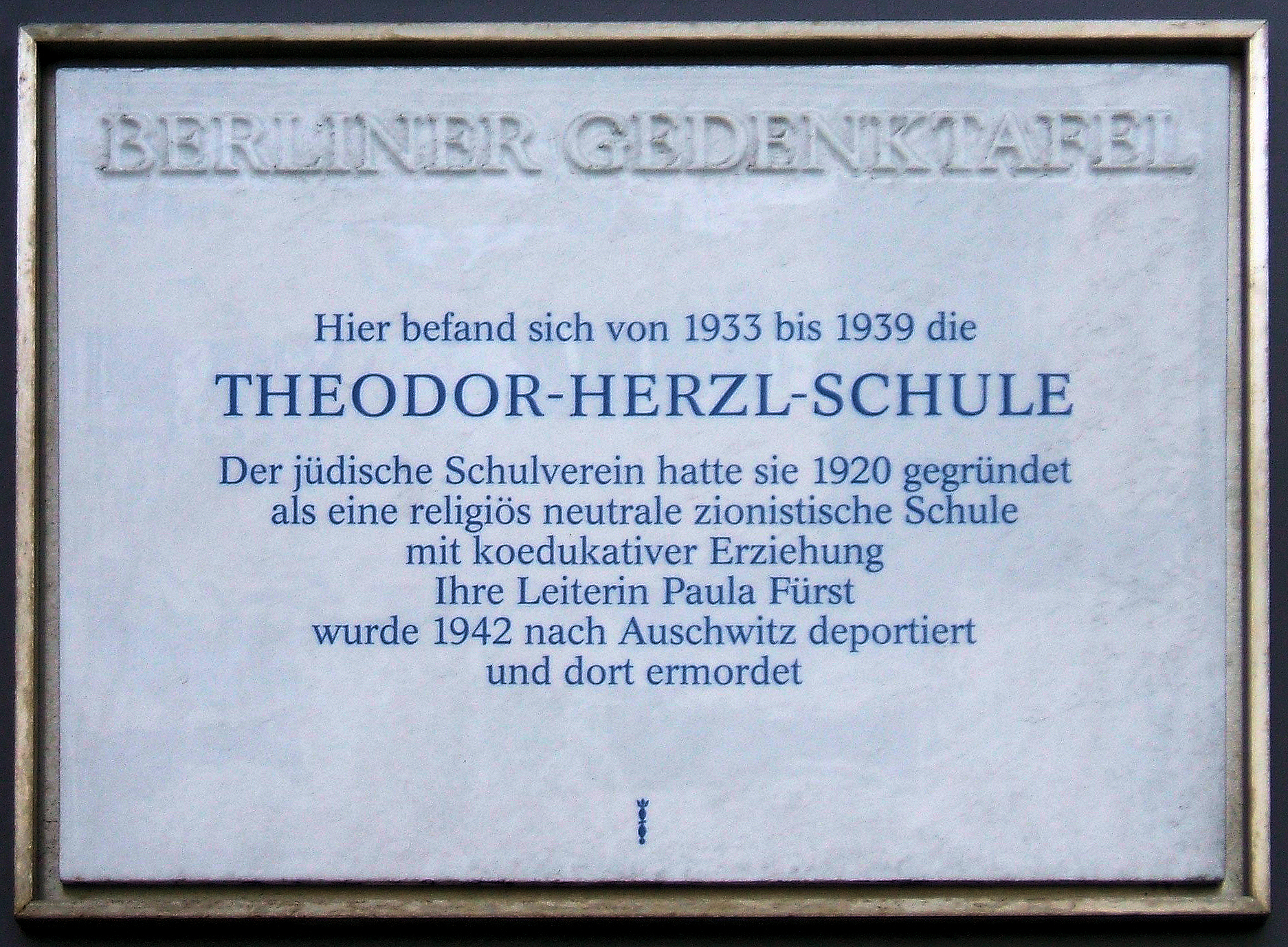 Berlin memorial plaque, Paula Fürst, Kaiserdamm 77-79, Berlin-Westend, Germany